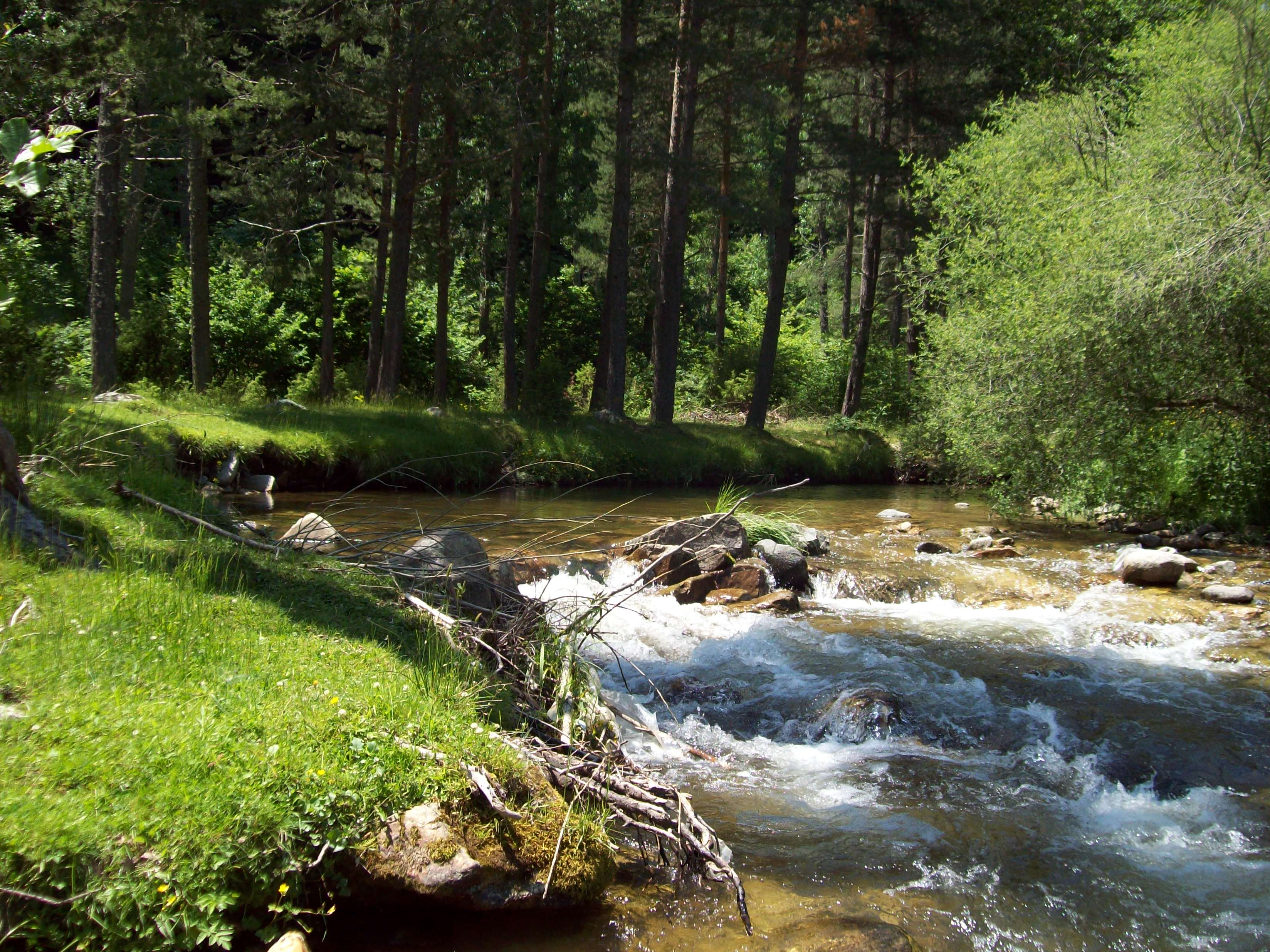 Malka Arda river. Petkovo, Smolyan District